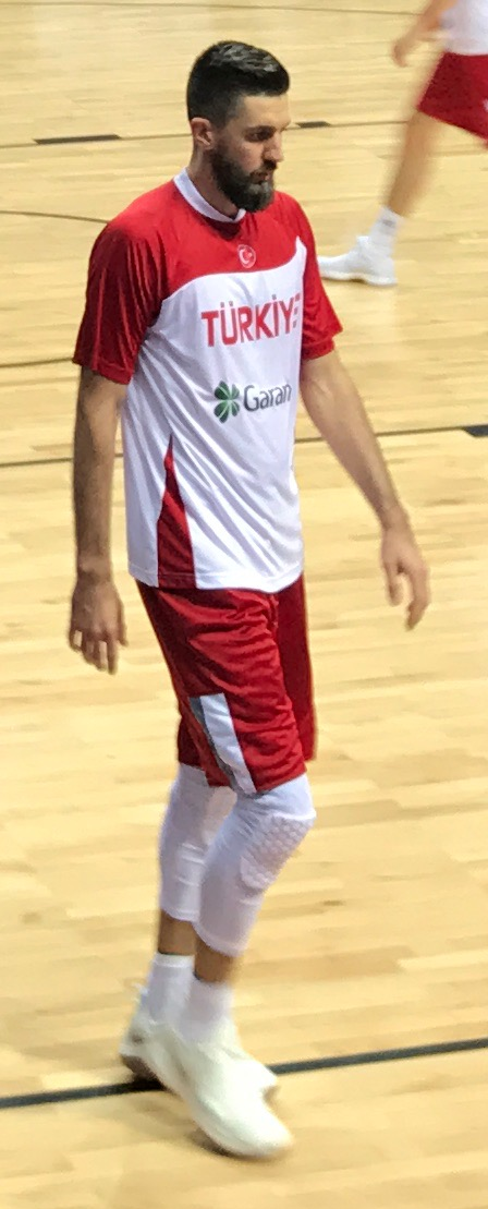 Erkan Veyseloğlu warming up before GBR - TUR eurobasket 2017 game